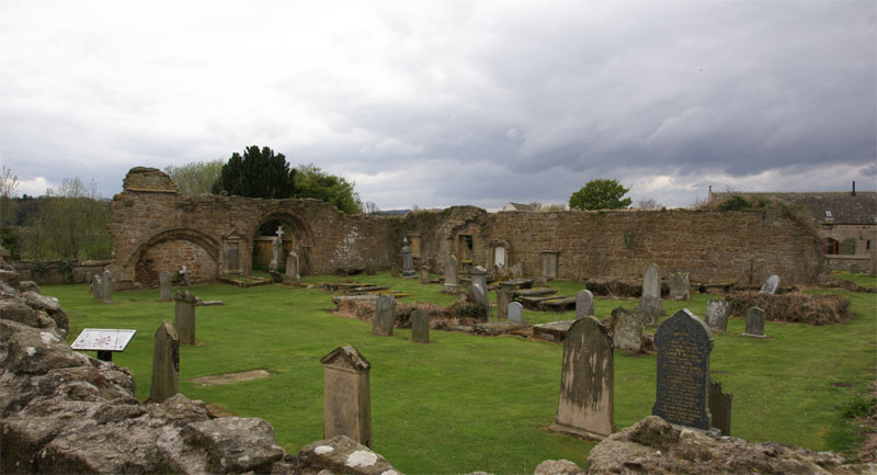 Kinloss Abbey (Scotland) - cloister